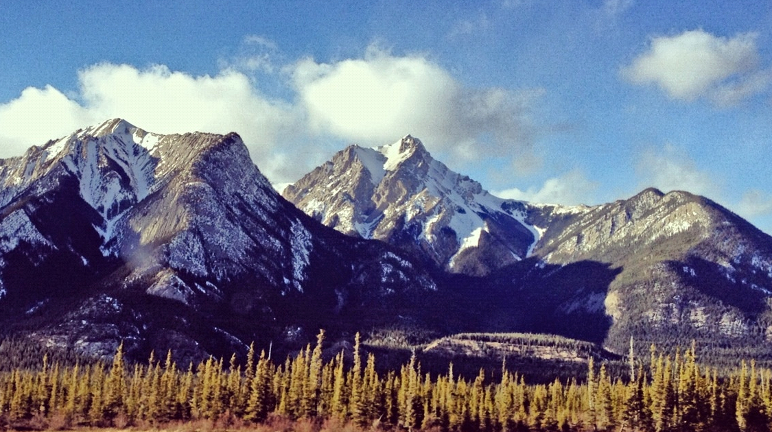 Esplanade Mountain (left) and Gargoyle Mountain (center) seen from Highway 16 in Jasper National Park, Canada